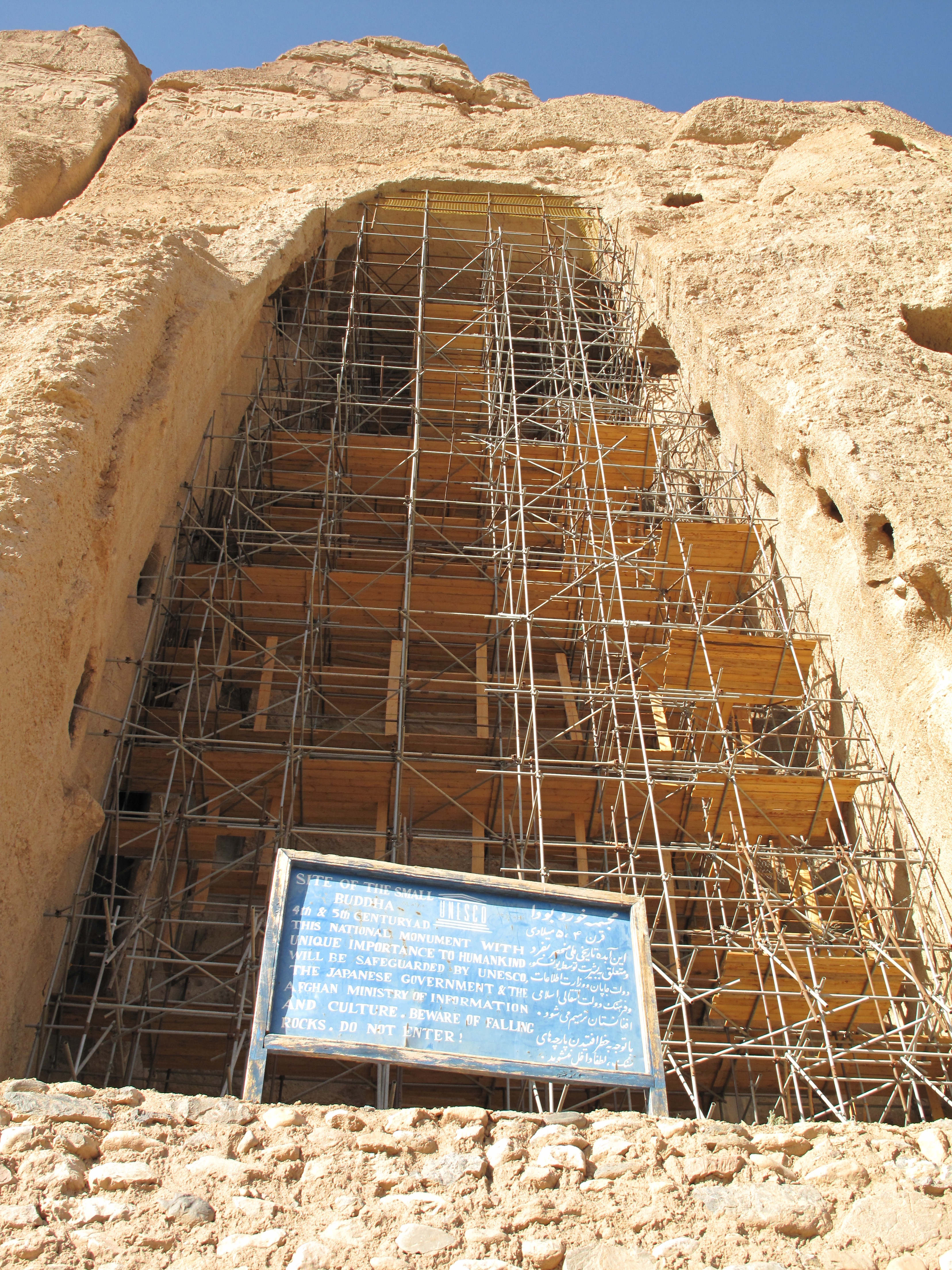 Cultural Landscape and Archaeological Remains of the Bamiyan Valley (Afghanistan)